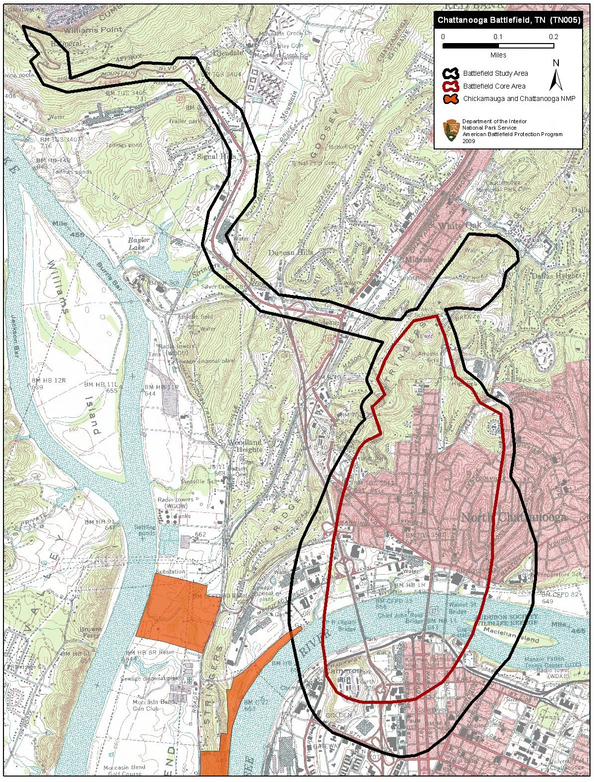 Map of battlefield core and study areas. The revised Study Area includes the Federal approach route and the probable location of the Union artillery park. The Core Area was enlarged to include the heights from which the Union guns fired.